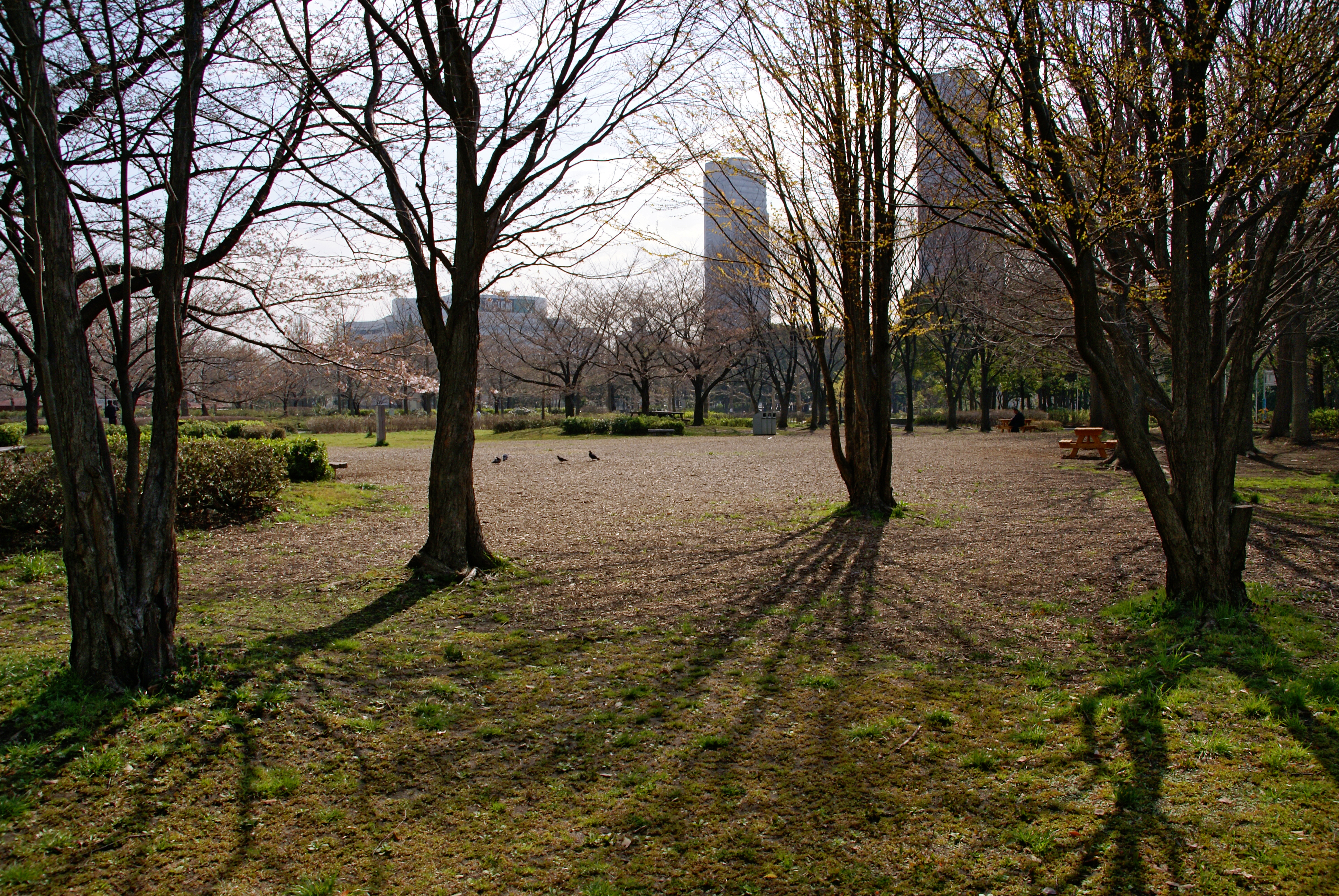 Sarue Park in Koto-ku, Tokyo, Japan